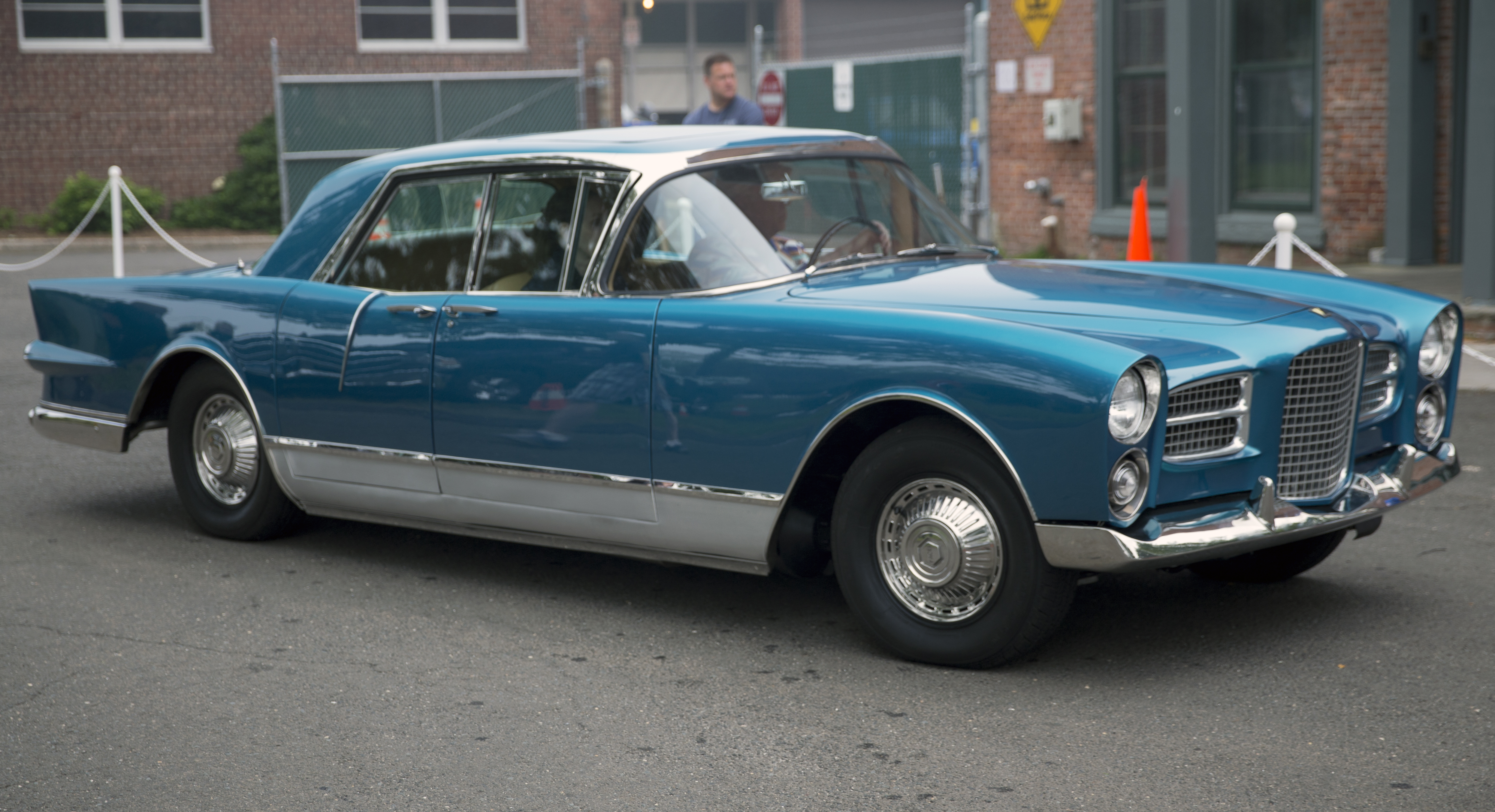 1961 Facel Vega Excellence (EX1) entering the 2019 Greenwich Concours d'Elegance. One of only three built with a sunroof in 1961, according to owner Dan Kantner who bought the car for $350 in the 1970s. 29,000 miles.